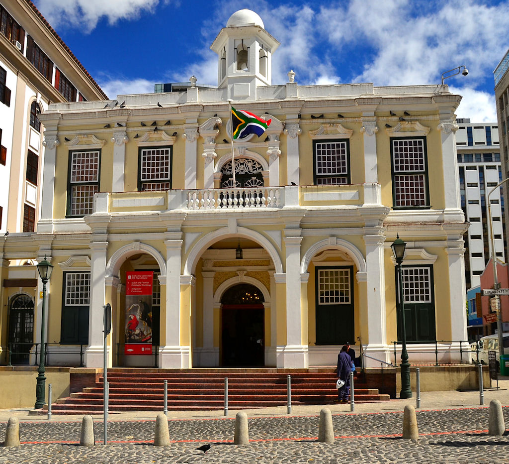 This building stands as a proud example of eighteenth century architecture and symbolises the development of local government in Cape Town.